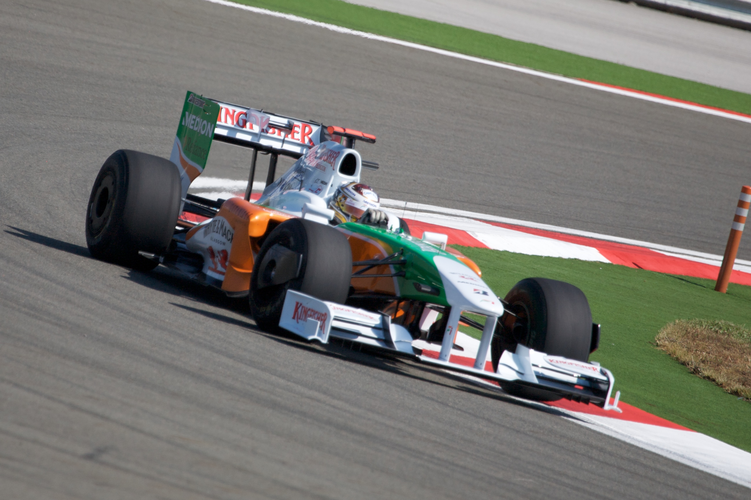 Adrian Sutil driving for Force India at the 2009 Turkish Grand Prix.